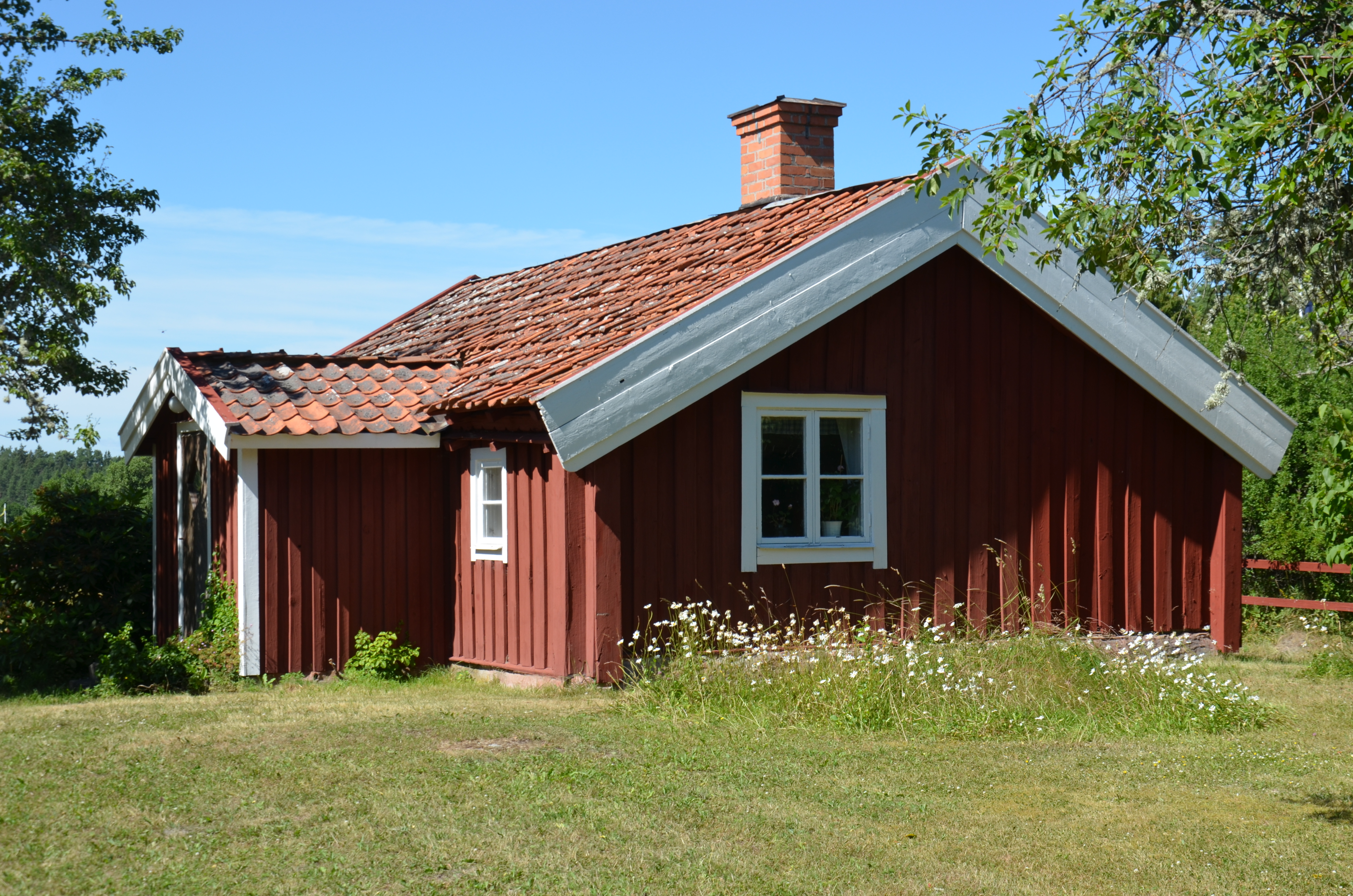 Ekenstugan, Söderköpings kommun